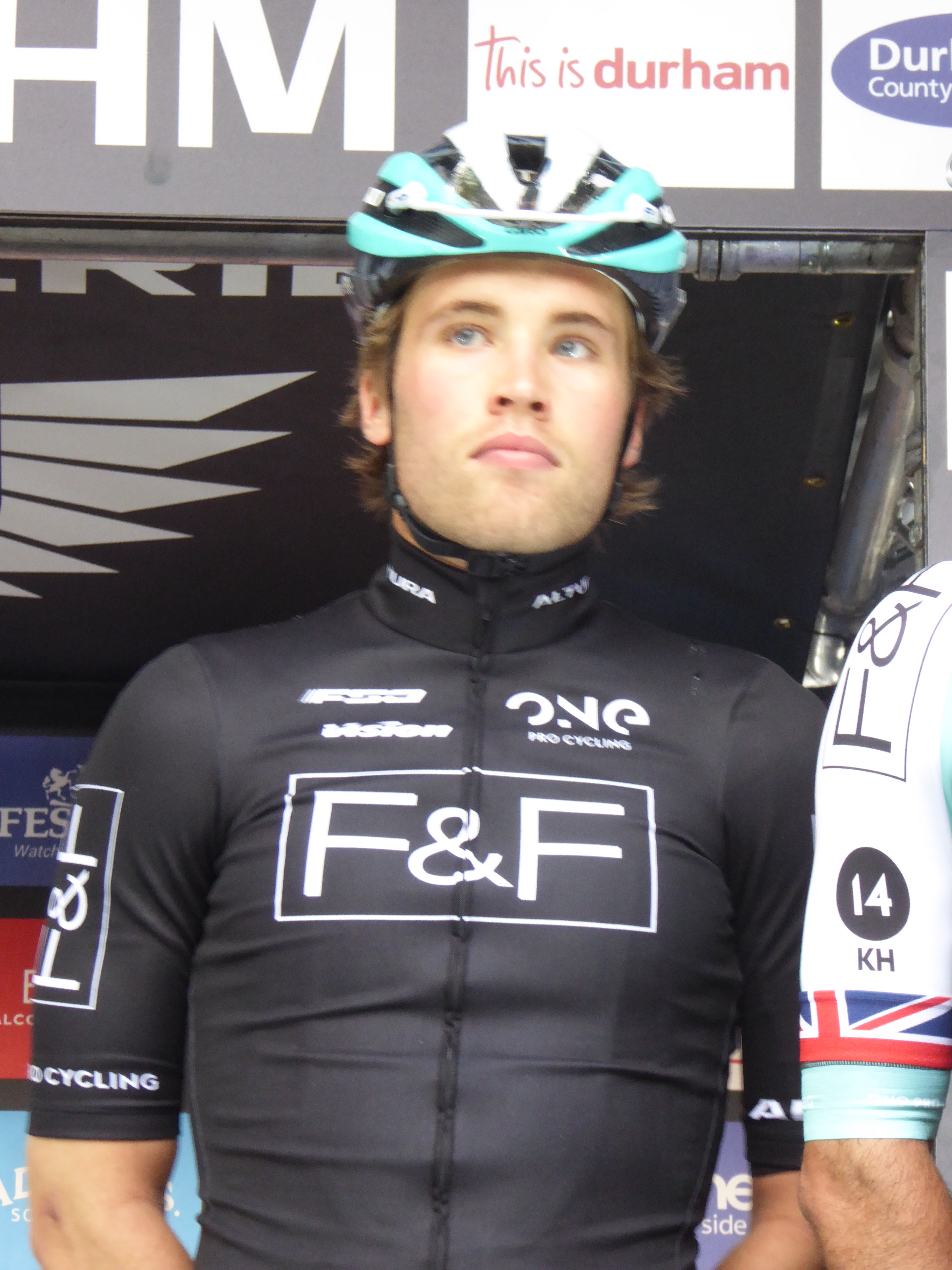 Sam Williams (ONE Pro Cycling), prior to Round 9 of the Tour Series in Durham, on 27 May 2017.